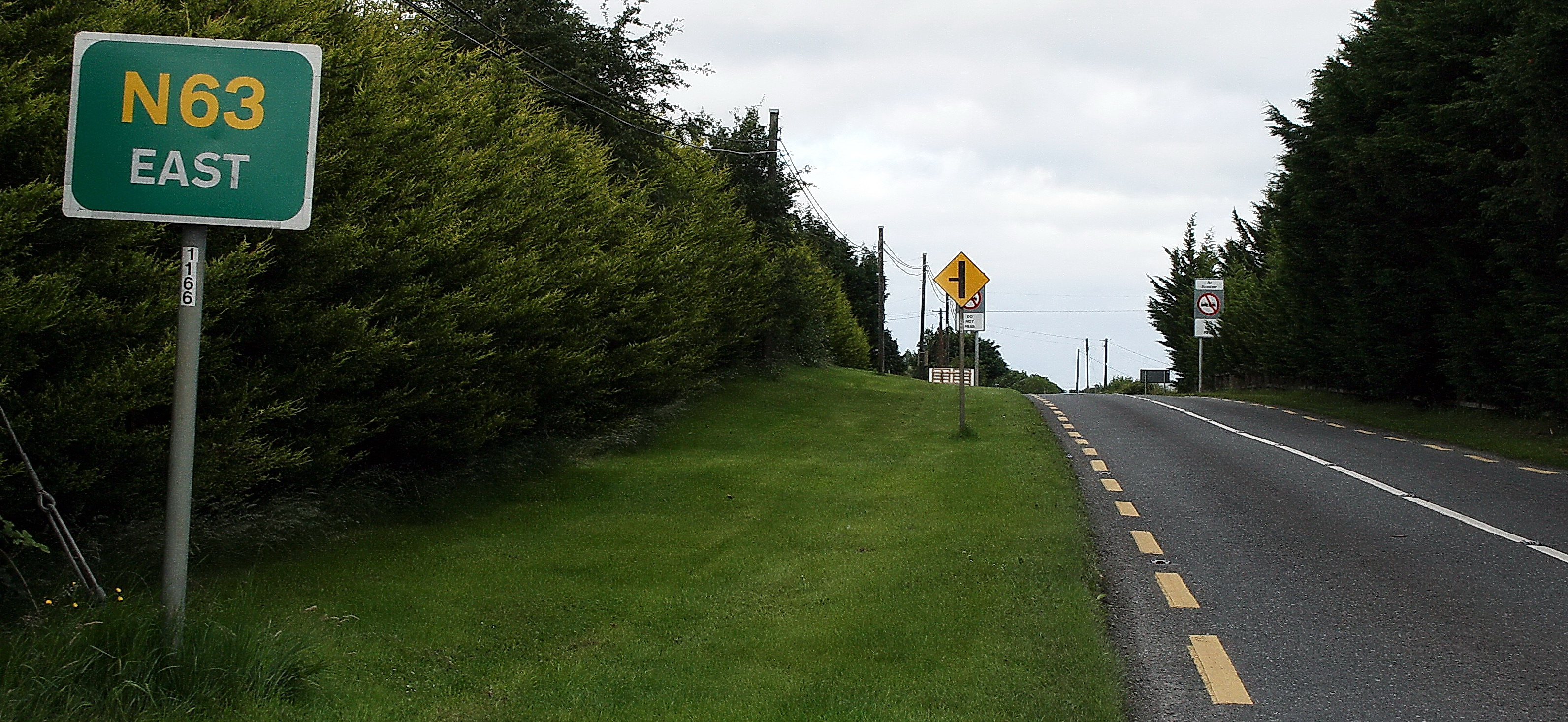 The N63 heading east at Lanesborough, County Longford, Ireland